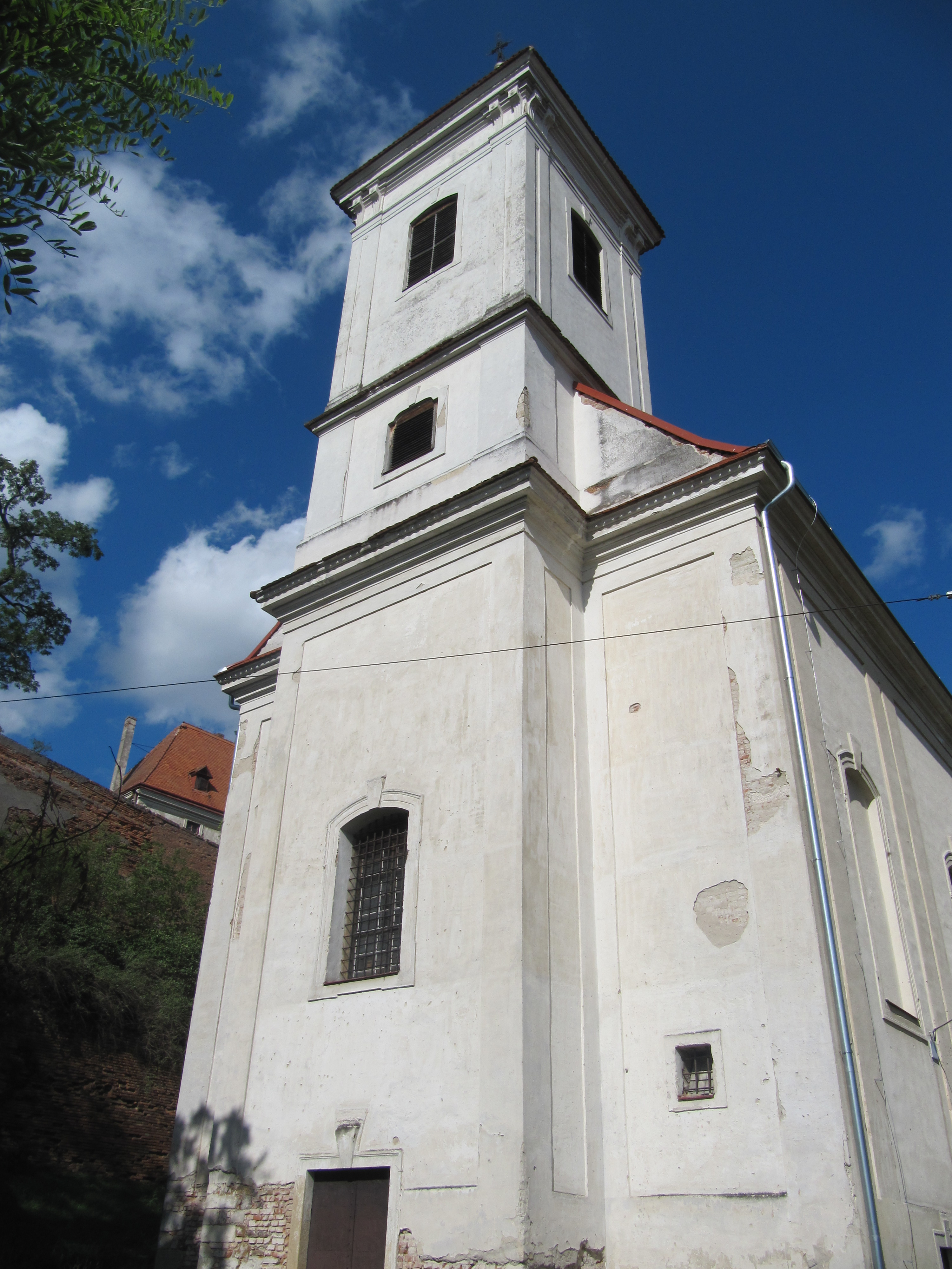 Jaroslavice in Znojmo District, Czech Republic. Church of St. Giles.